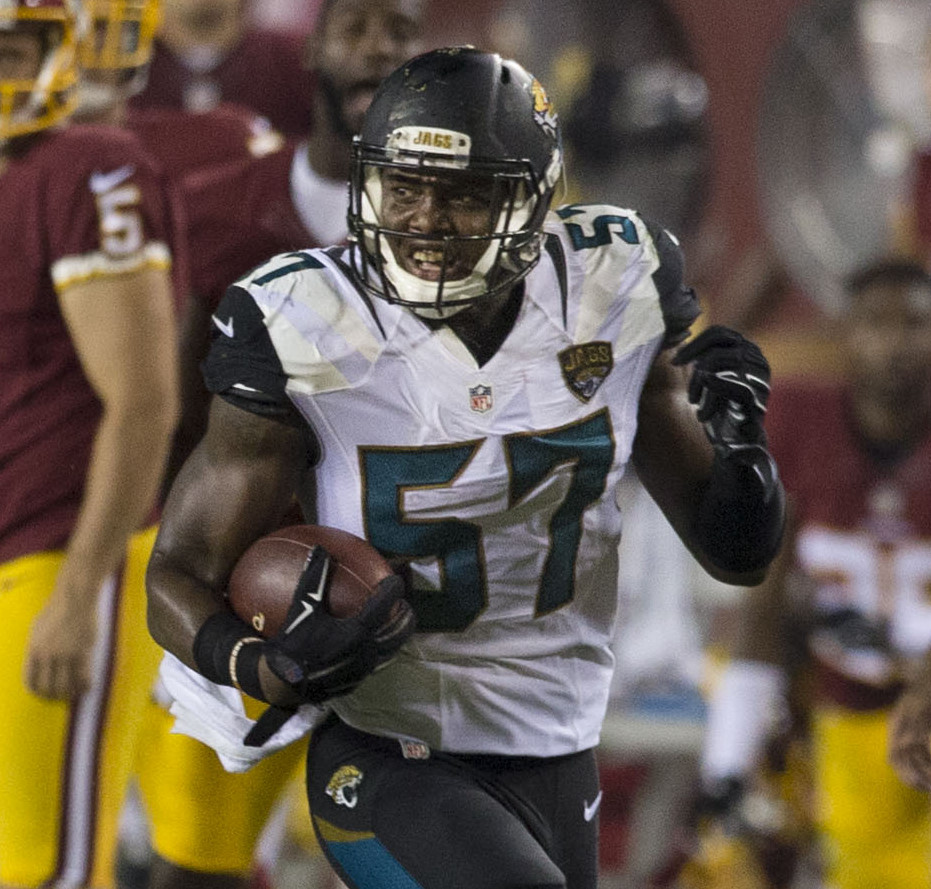 Jacksonville Jaguars linebacker, Thurston Armbrister, playing against the Washington Redskins in a 2015 preseason game on September 3, 2015.